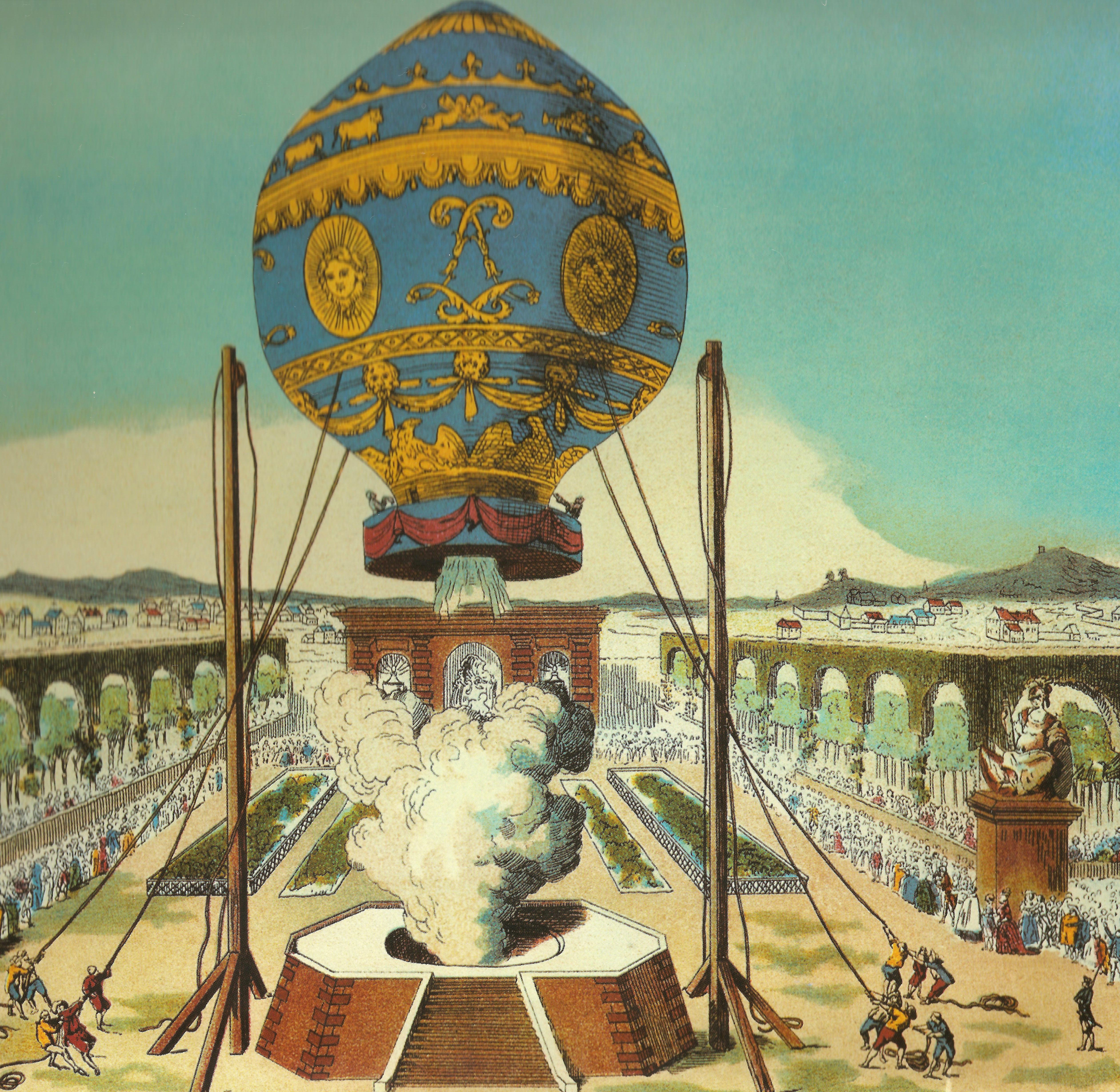 The first manned hot-air balloon, designed by the Montgolfier brothers, takes tethered off at the garden of the Reveillon workshop, Paris, on October 19, 1783.